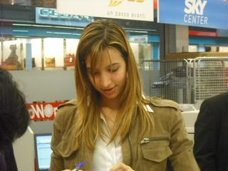 Silvia Olari signing autographs in Parma